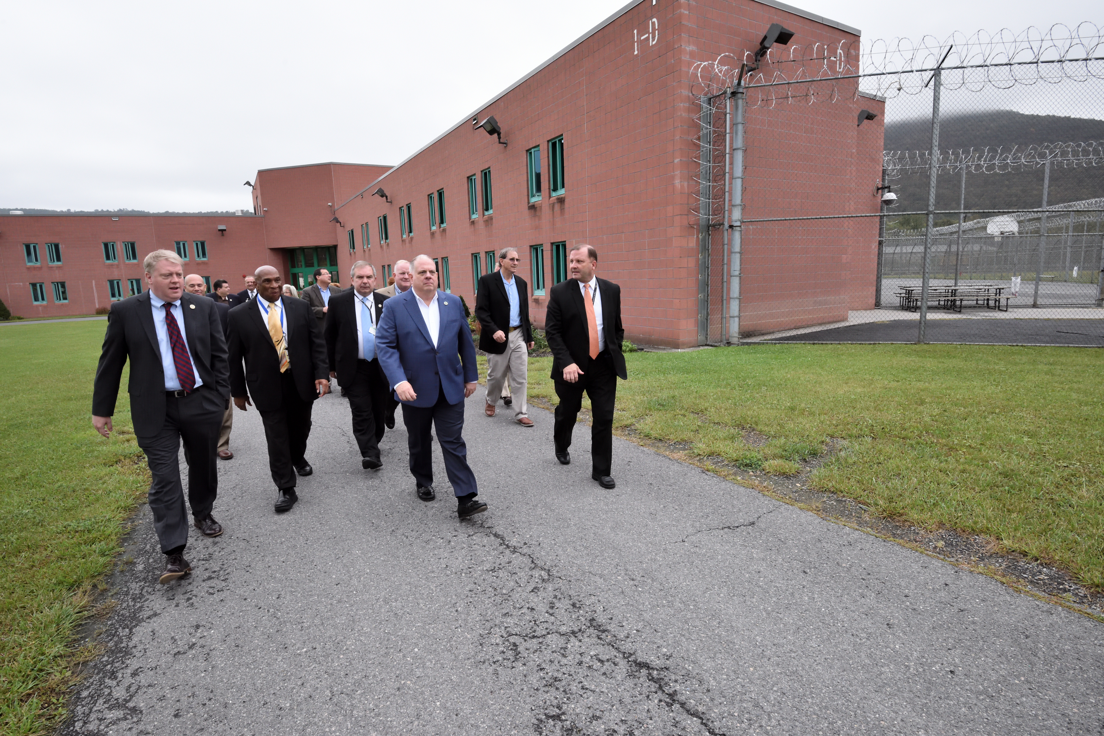 Governor Hogan Visits Western Correctional Institution by Anthony DePanise at Western Correctional Institution, 13800 McMullen Hwy SW, Cumberland, MD 21502